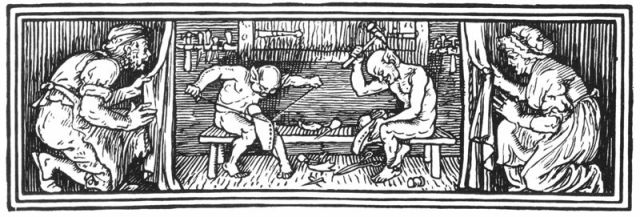 Illustration of "The Elves" (The Elves and the Shoemaker) from Household Stories by the Brothers Grimm, translated by Lucy Crane, illustrated by Walter Crane, first published by Macmillan and Company in 1886.